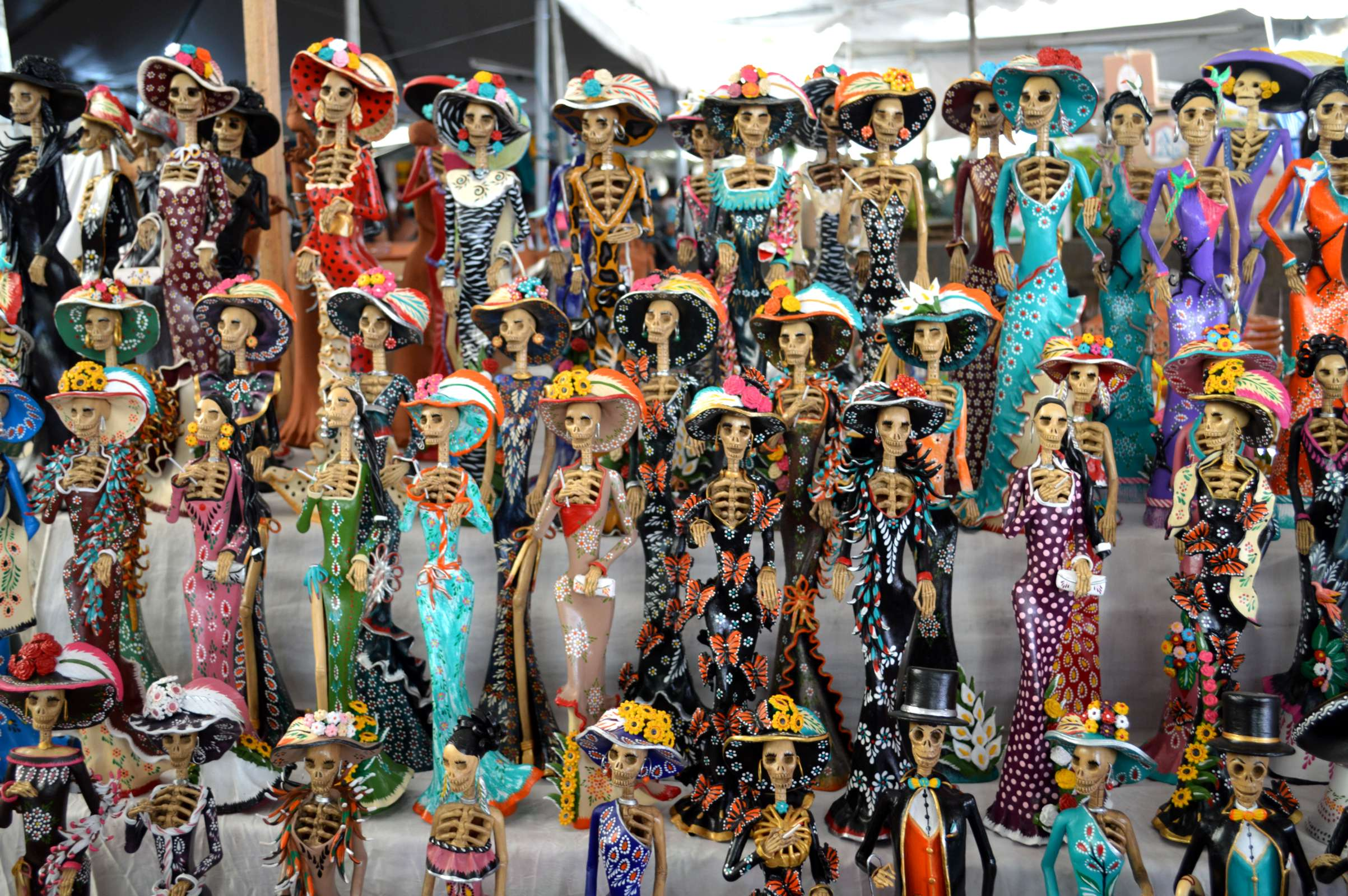 Ceramic Catrina pieces from Capula for sale at the Tianguis de Domingo de Ramos in Uruapan, Michoacan, Mexico